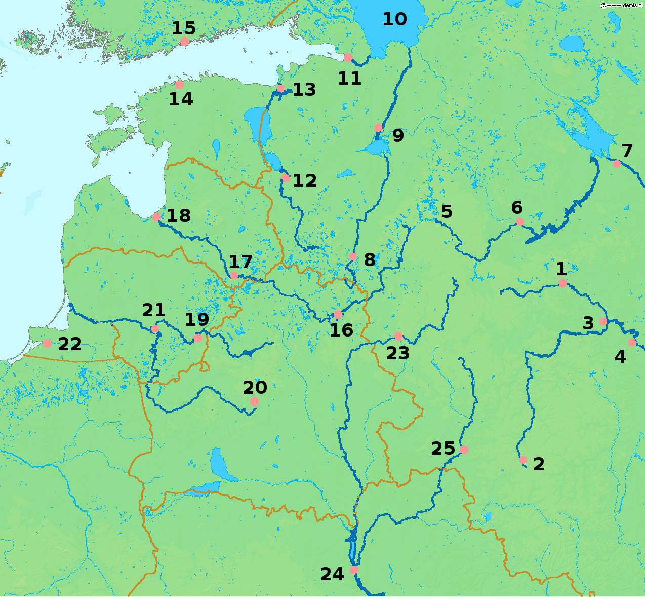 Map of western Russia, with national borders marked (brown), rivers emphasized (dark blue) and major cities (pink) numbered (black). Bounding box West 19°, South 50°, East 40°, North 61°. Center at 55°30′00″N 29°30′00″E / 55.50000°N 29.50000°E.